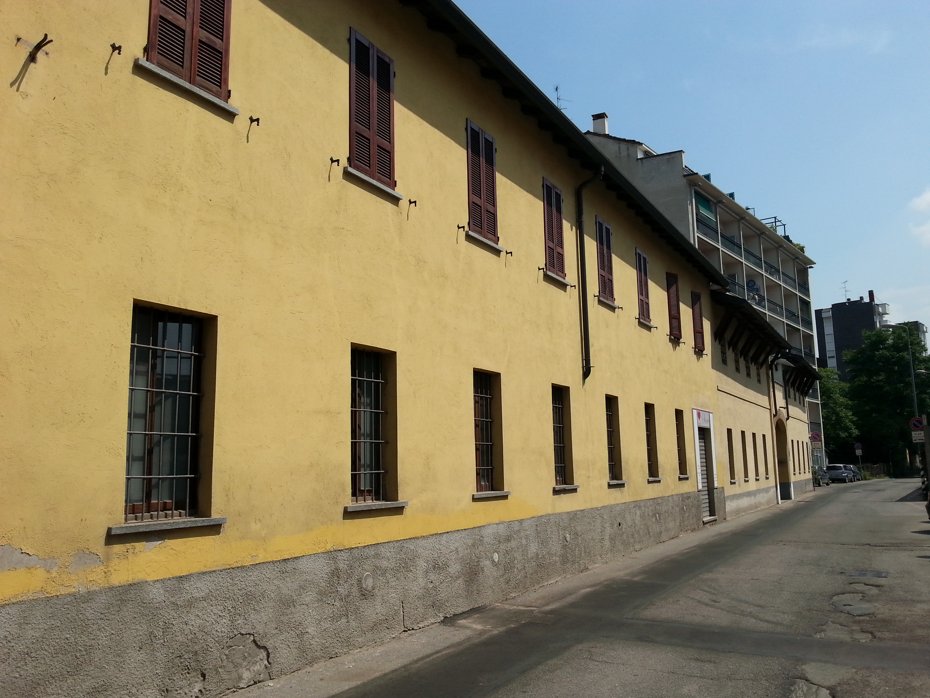 Via Barnaba Oriani 44-48 old farmhouse in direction of the city